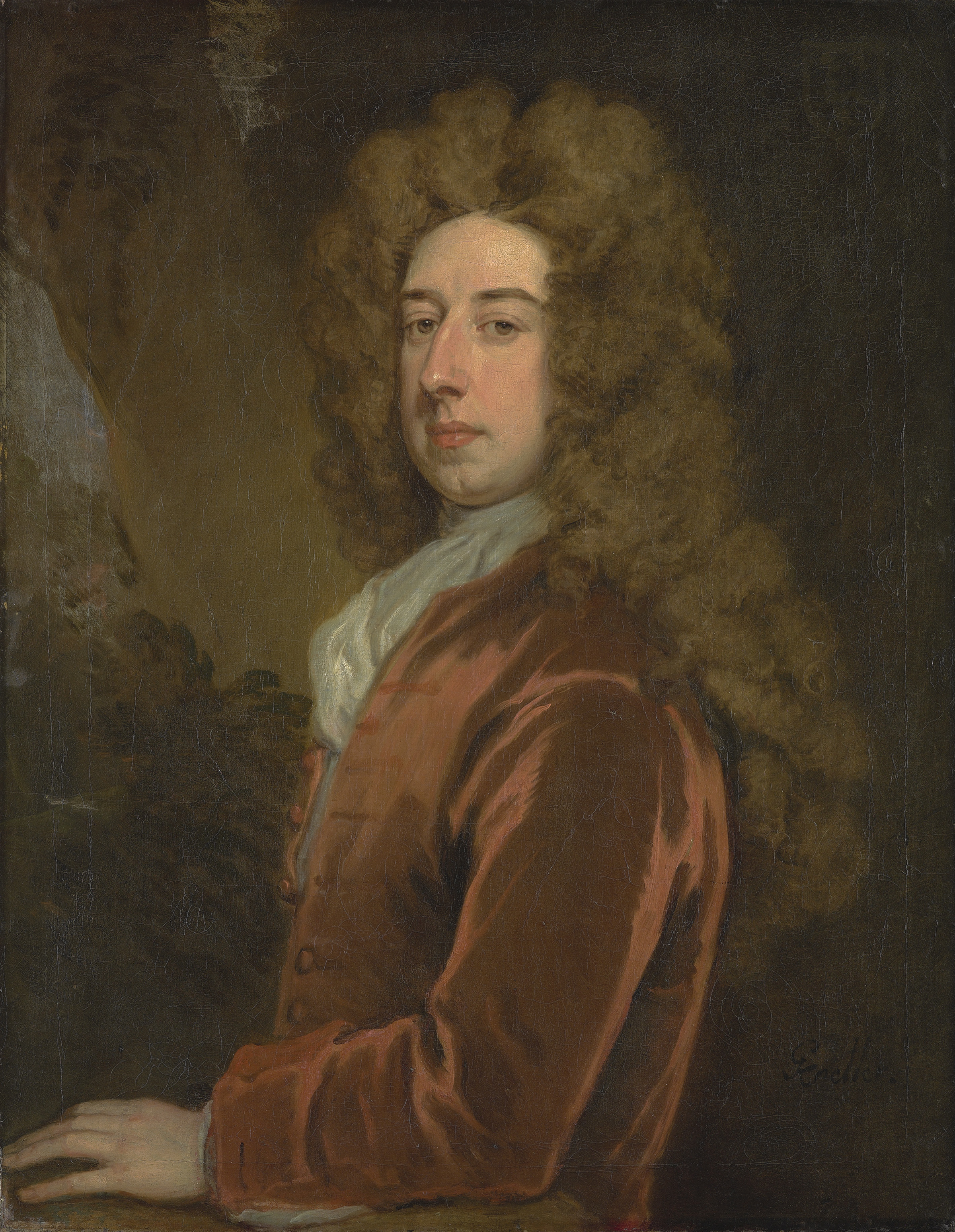 Portrait of Spencer Compton (1673–1743)